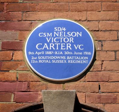 Blue Plaque VC Memorial in Greys Road Eastbourne Blue Plaque on the north side of Greys Road, Eastbourne, Sussex. Company Sergeant Major Nelson Victor CARTER of the Royal Sussex Regiment was killed on 30th June 1916 at the Boars Head Line, Richeboug l'Avoue in Northern France. He led an assault on enemy lines and captured a machine-gun post but was killed whilst carrying a wounded man to safety.